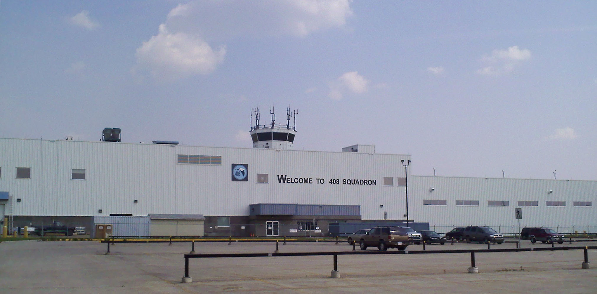 408 Tactical Helicopter Squadron headquarters at CFB Edmonton.